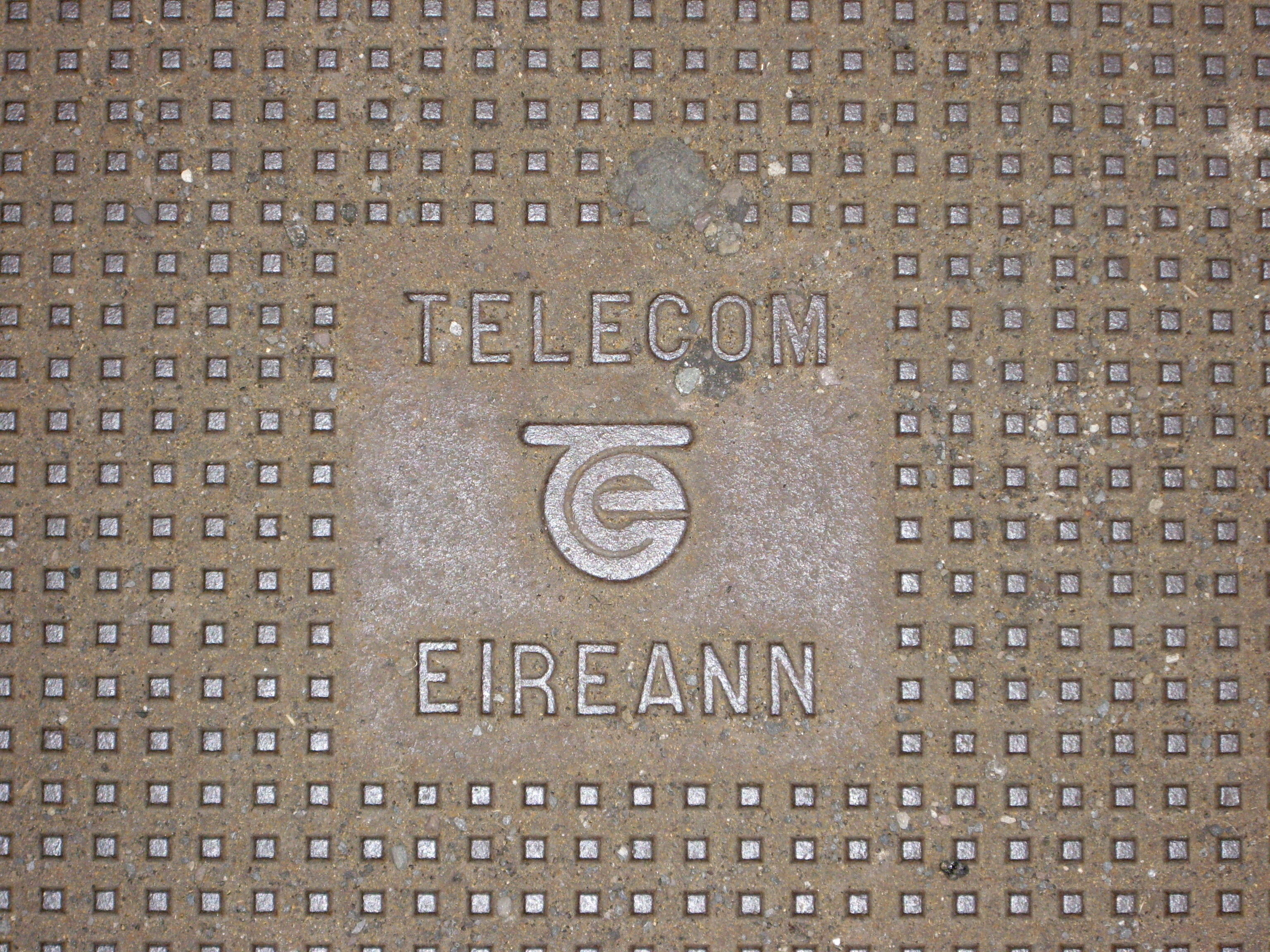 Telecom manhole cover in Cork, dating to 1984-99 before "Telecom Éireann" became "eircom".